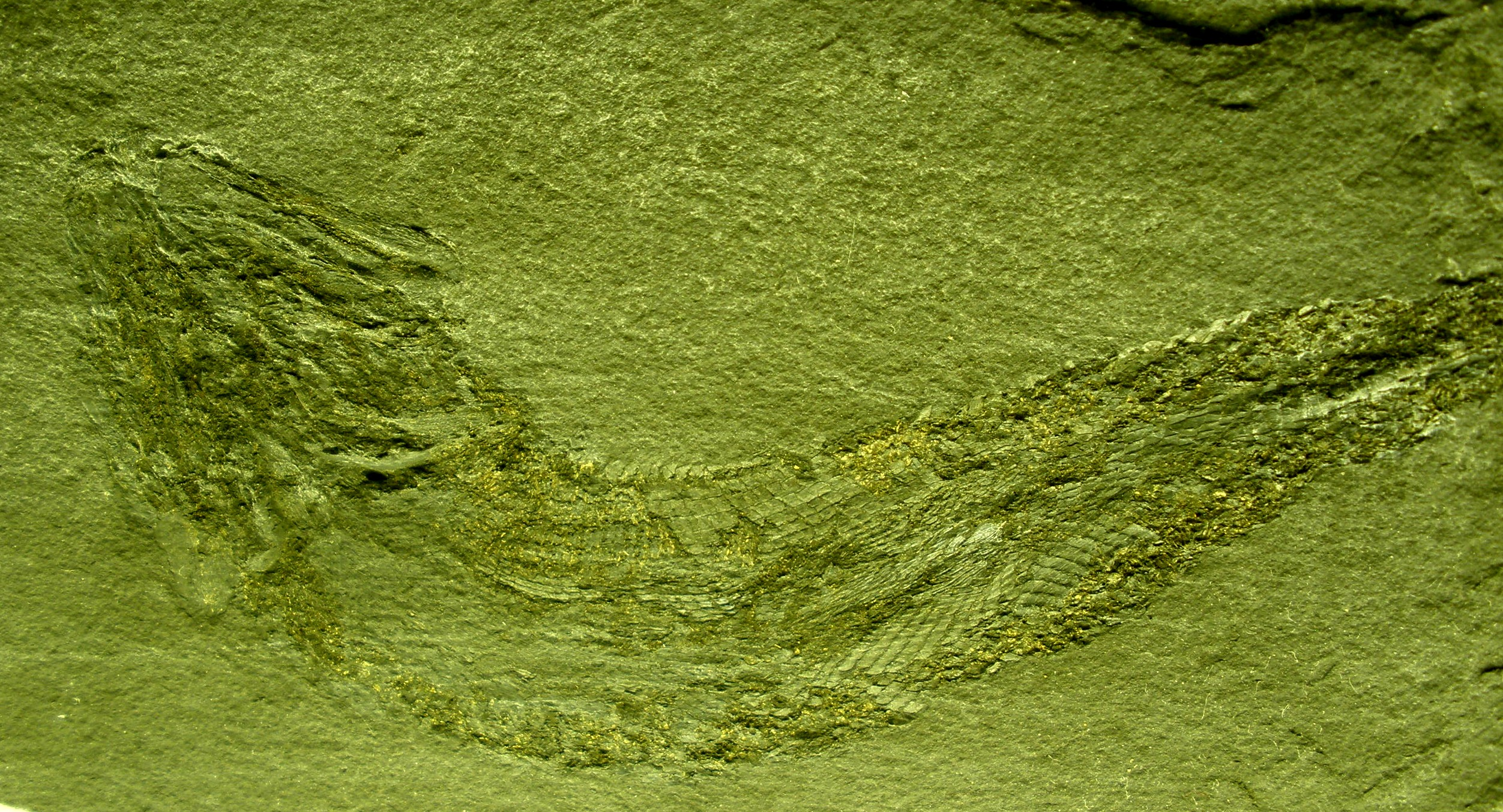 Palaeoniscus vratislavensis, Took the photo at Museo di Storia Naturale di Venezia